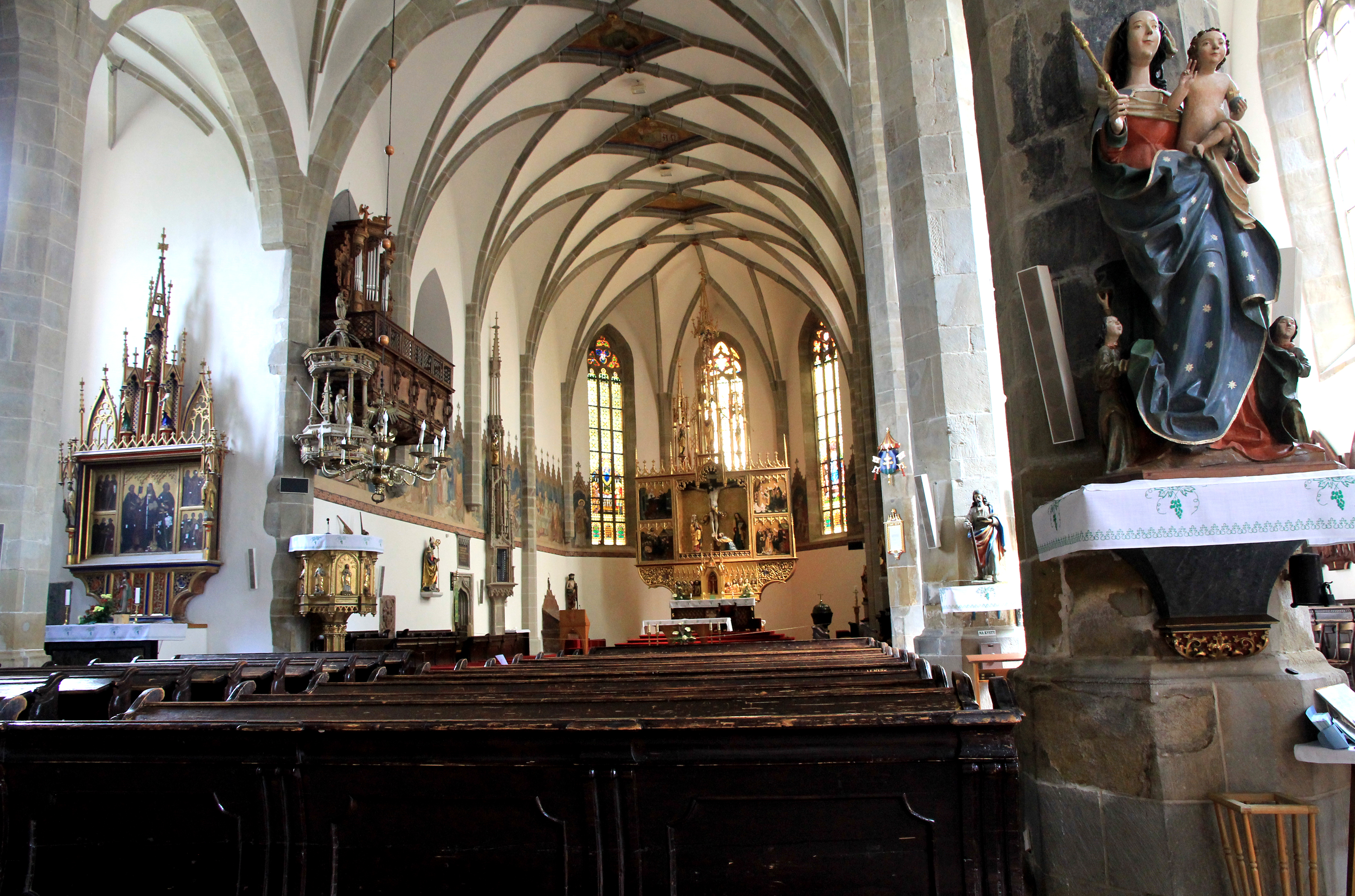 The interior of Basilica of the Exaltation of the Holy Cross in town Kežmarok, Slovakia